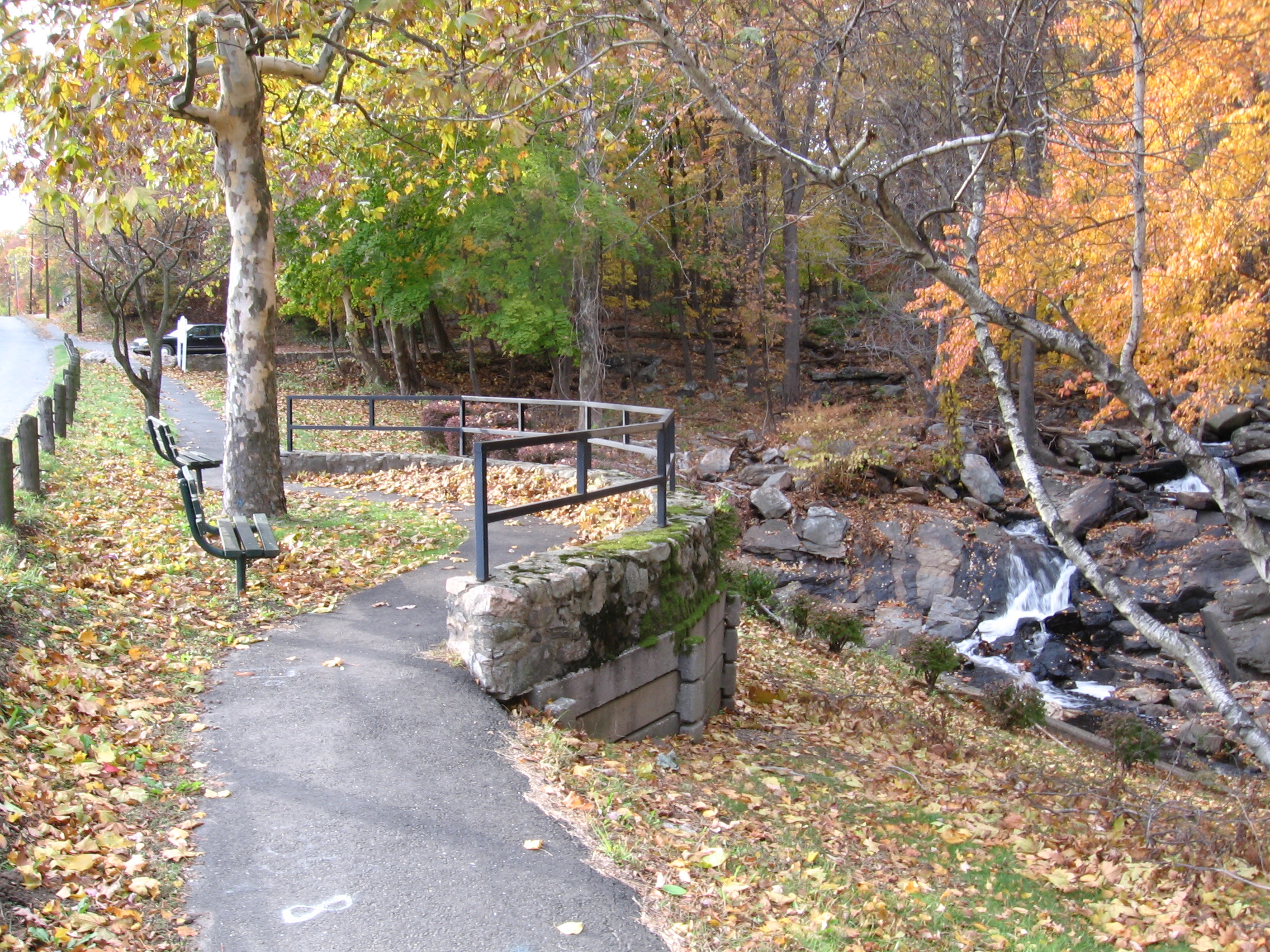 View looking west at the Stony Brook Park, a vest pocket park on Ledge Road, Darien, Connecticut.